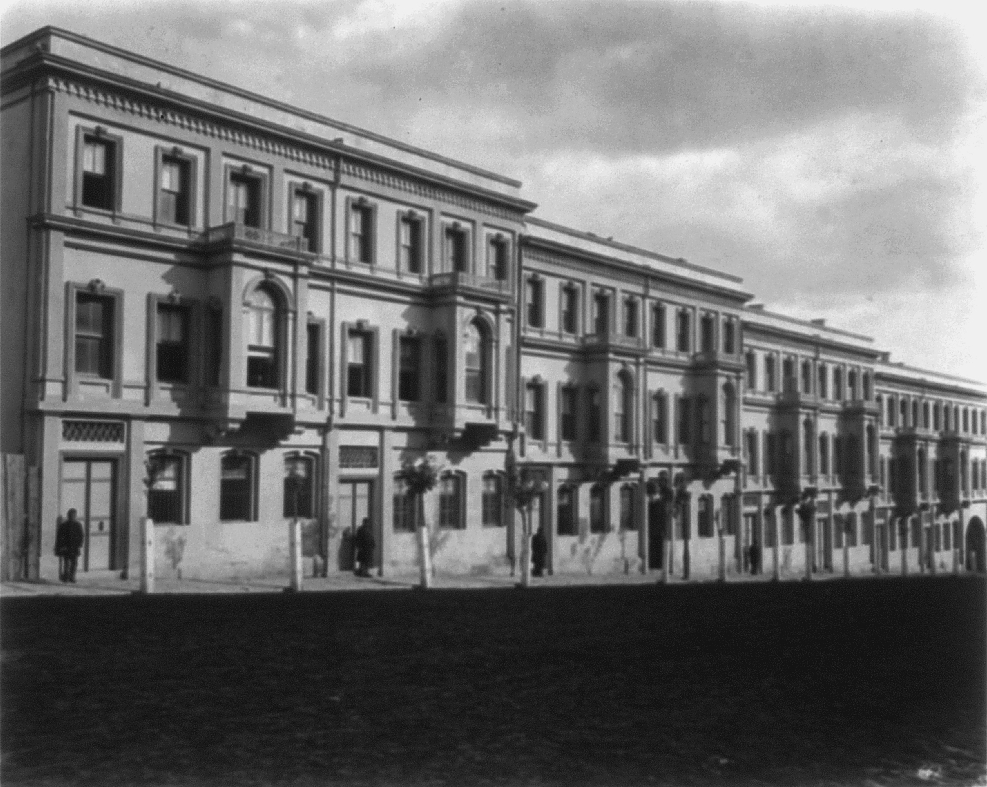 Mekteb-i Aşiret-i Humayun (Imperial Tribal School) was an Istanbul school founded in 1892 by Abdulhamid II to promote the integration of tribes into the Ottoman empire through education. Abdullah Frères — Viçen (1820-1902), Hovsep (1830-1908) and Kevork Abdullah (1839-1918): three armenian brothers who ran a commercial studio in Constantinople with branches in Cairo and Alexandria. In 1862, named official photographers to the court of Sultans Abdul Aziz and Abdul Hamid II, they were commissioned to document the Ottoman Empire.